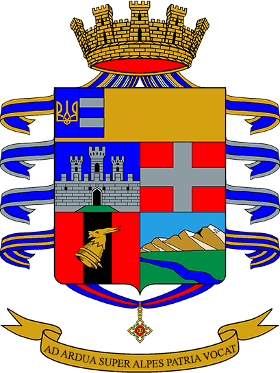 Coat of Arms of the 9° Alpini Regiment; Italian Army.